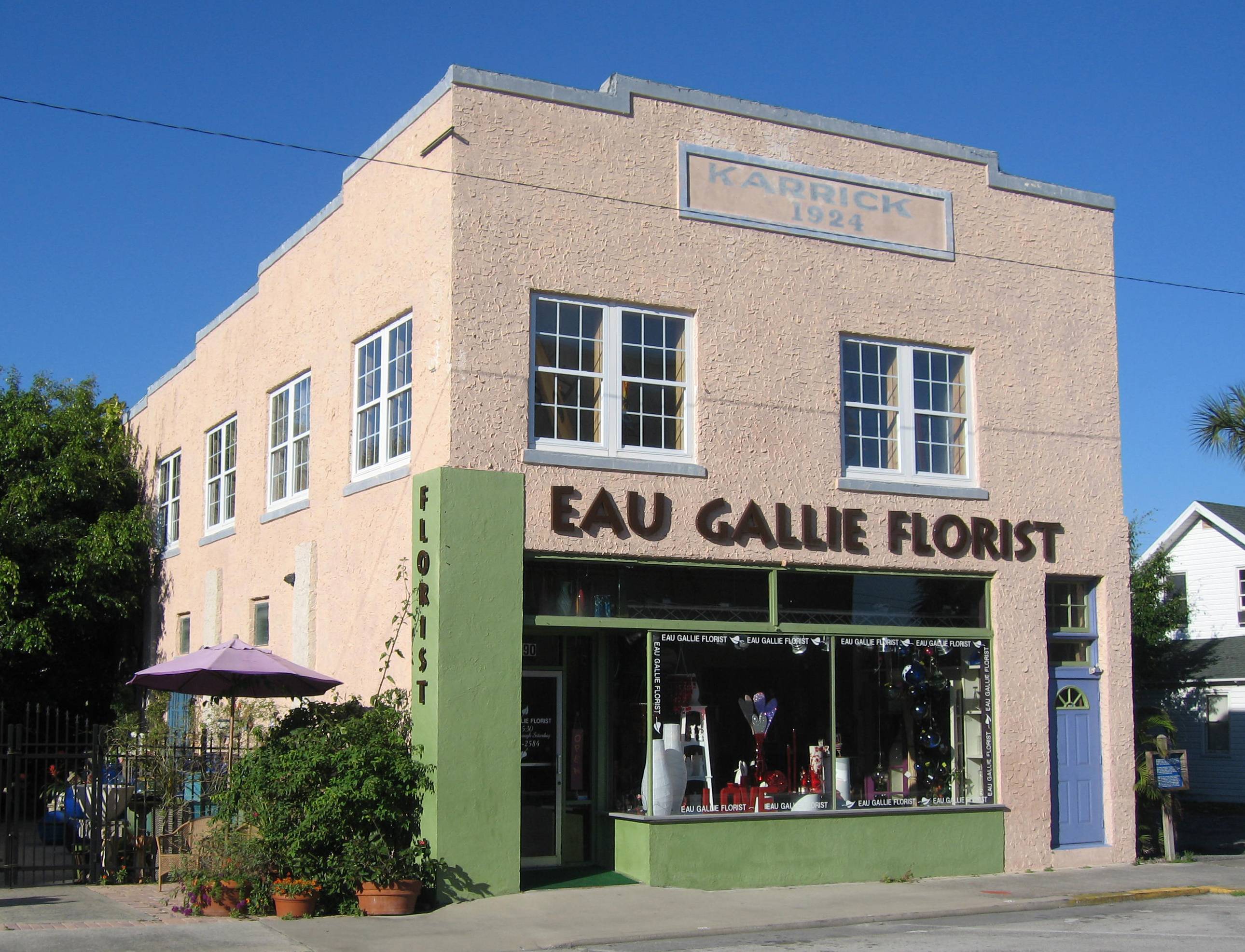 Oblique view of the front left side of the Karrick Building (1924), 1490 Highland Avenue, Eau Gallie, Florida, United States.